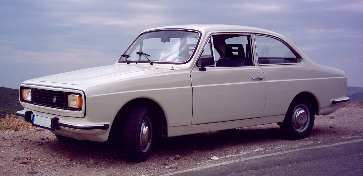 1974 Anadol A1 MkII 1300cc modified to look like an Anadol SL. This is not an original A1 MKII. It has been modified by changing the front to that of an SL. This is common practice in Turkey, people make their cars / trucks / buses look like a newer model by making a few cosmetic changes. This picture should not be used as an example of what an Anadol A1 MKII looks like.